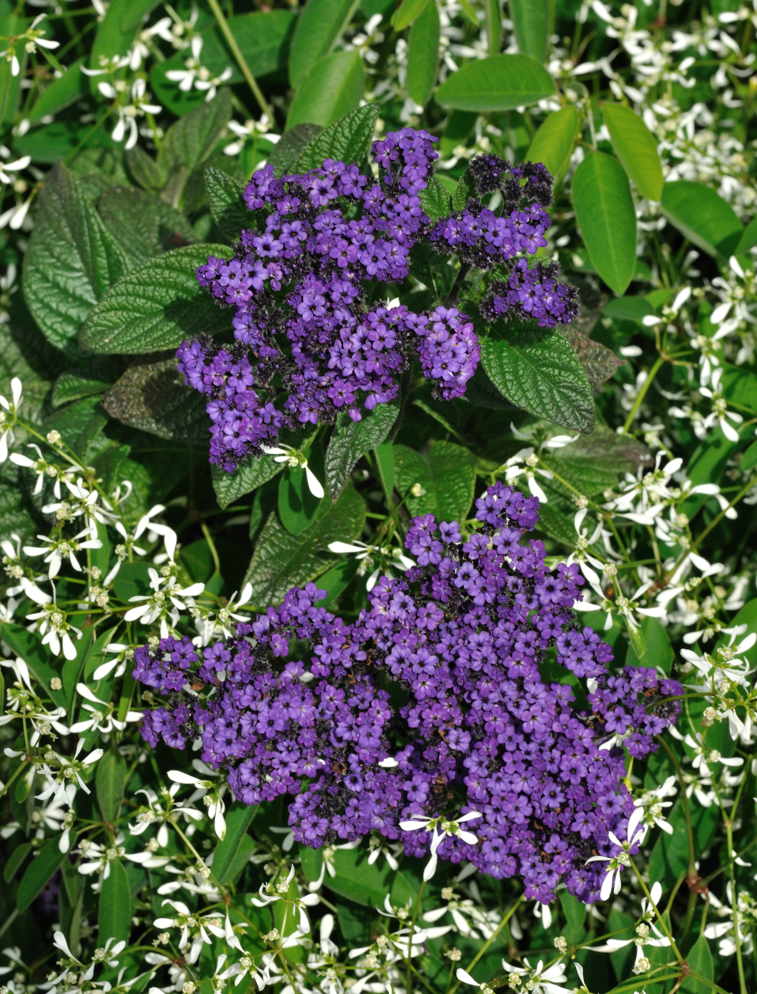 Common Heliotrope (Heliotropium arborescens) in the Wilhelma, Stuttgart, Germany.